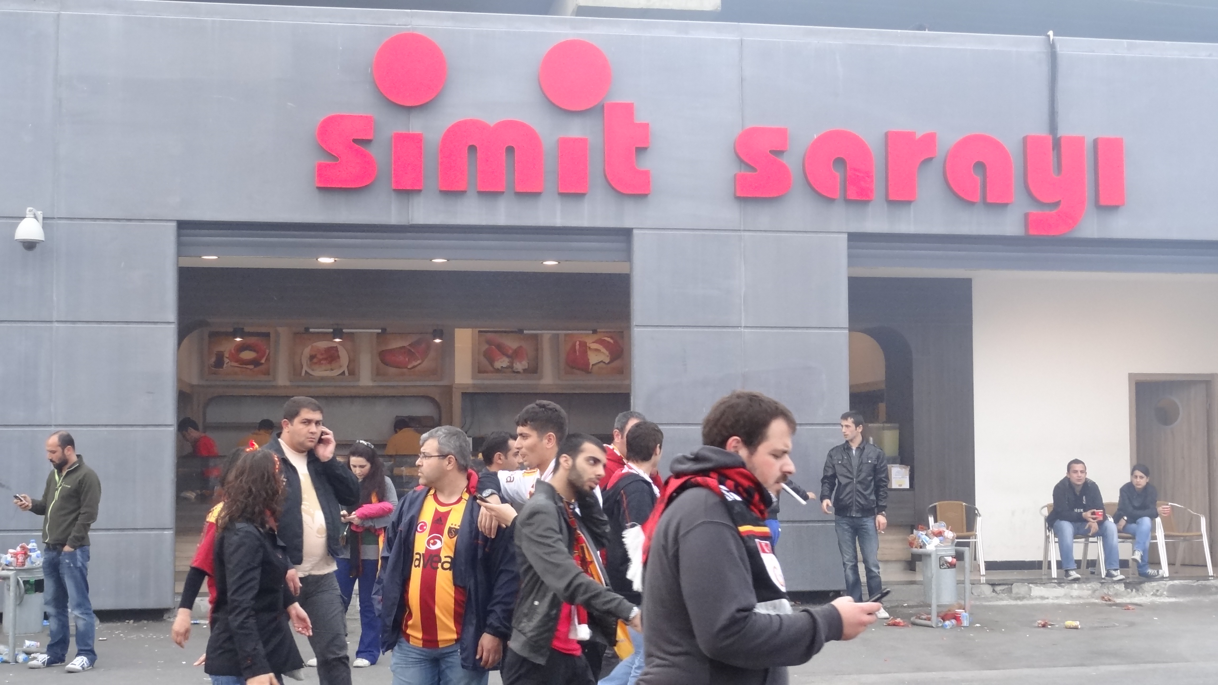 Ali Sami Yen Spor Kompleksi Aslanlı Yol Simit Sarayı Restaurant